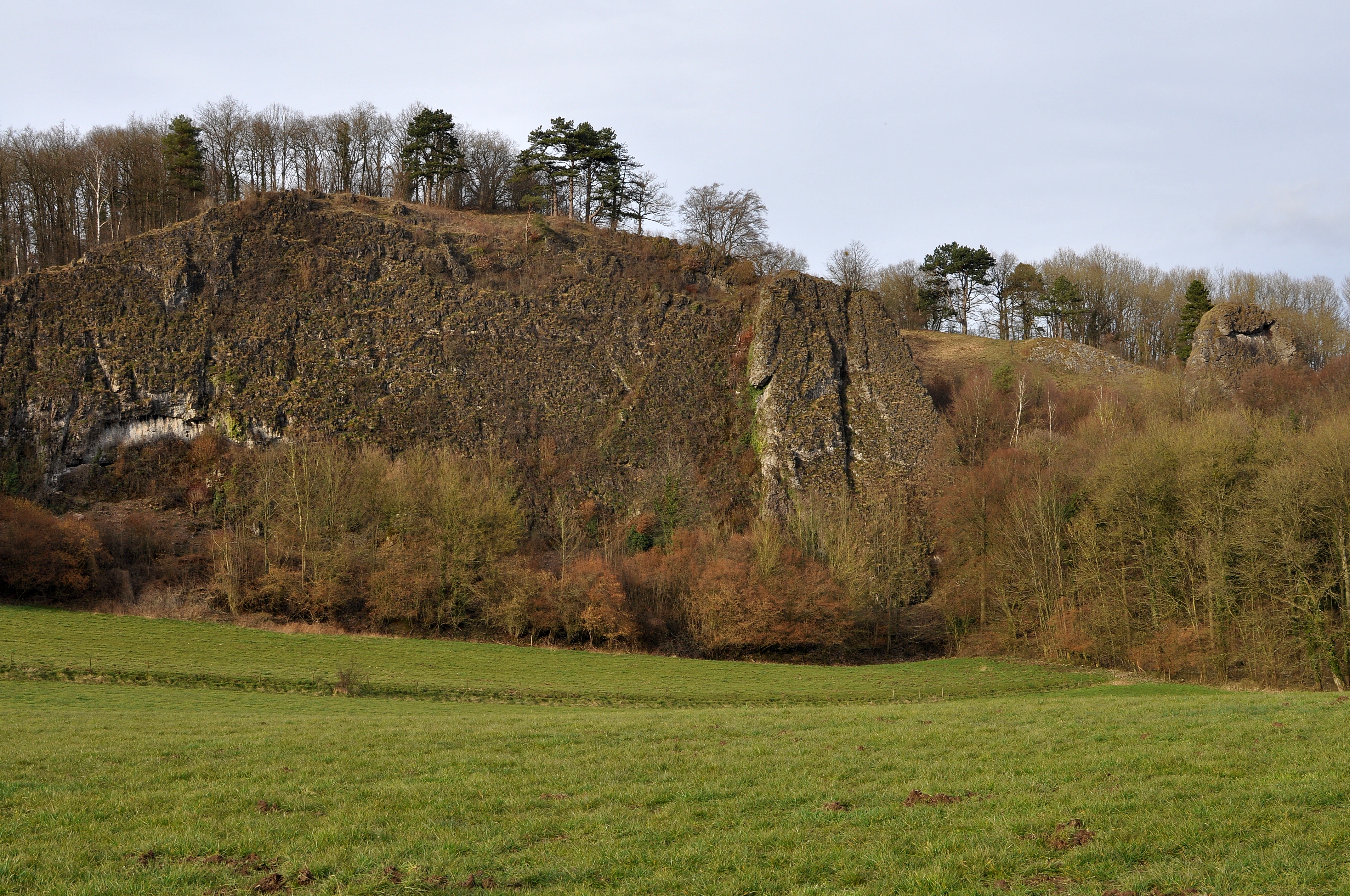 The 'Roches noires' in Comblain-au-Pont (nature preserve). The 'Roche du lion' is on the left up part.